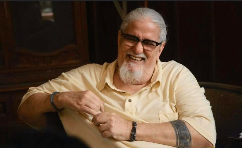 Peque Gallaga on the set of T'yanak.